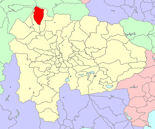 The former village of Ōizumi in Yamanashi Prefecture. Merged to form Hokuto on November 1, 2004